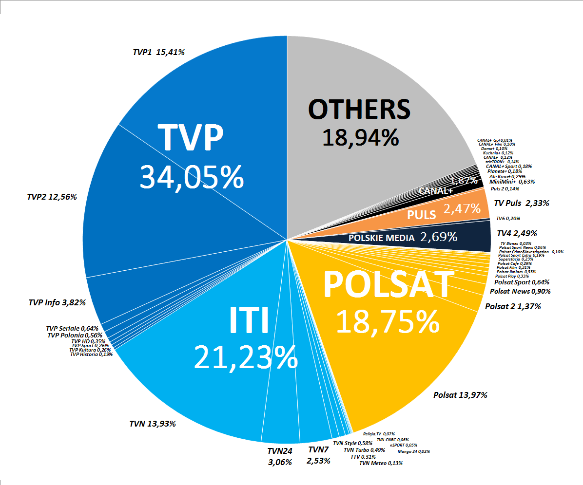 Shares in the television market in Poland in 2012